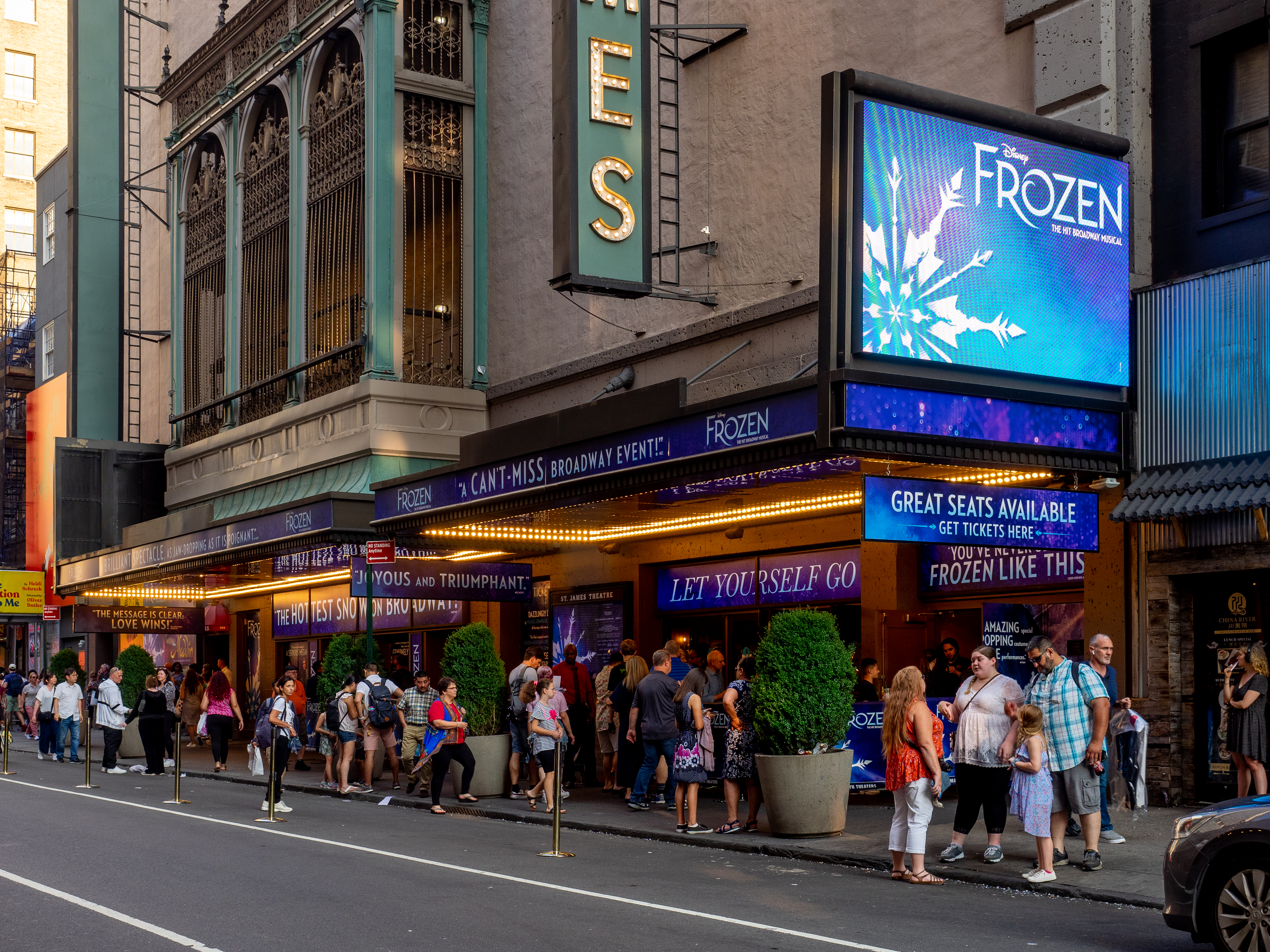 Theater District, Midtown Manhattan, NYC